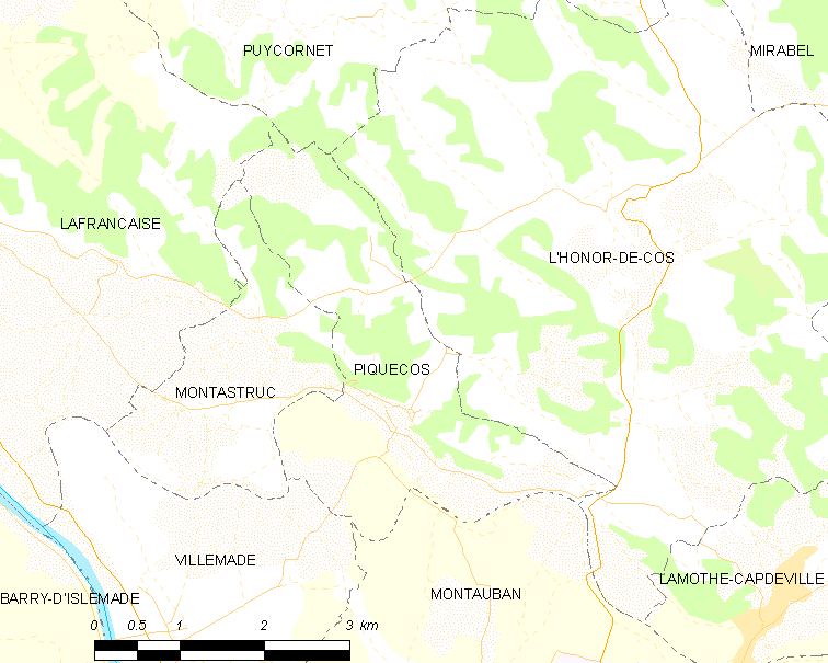 Map of French municipality Piquecos